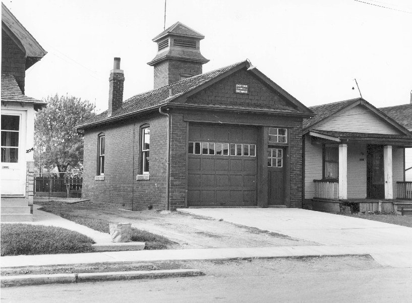 Constructed in 1929, the police and fire department headquarters for East York Township was a small, one-room building at 443 Sammon Avenue. Now Toronto, Ontario, Canada.